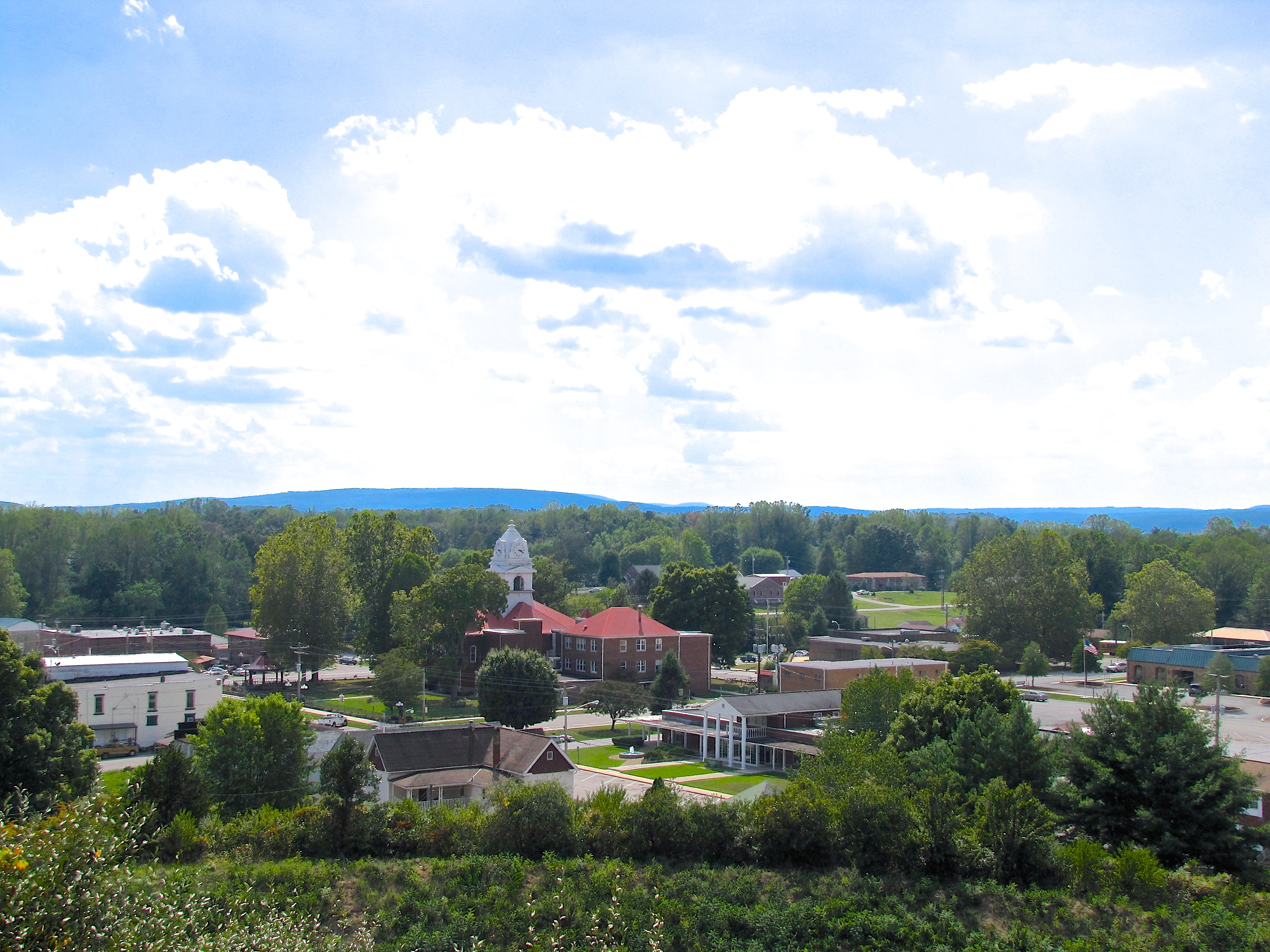 Wartburg, Tennessee, United States; the Morgan County Courthouse is left of center.